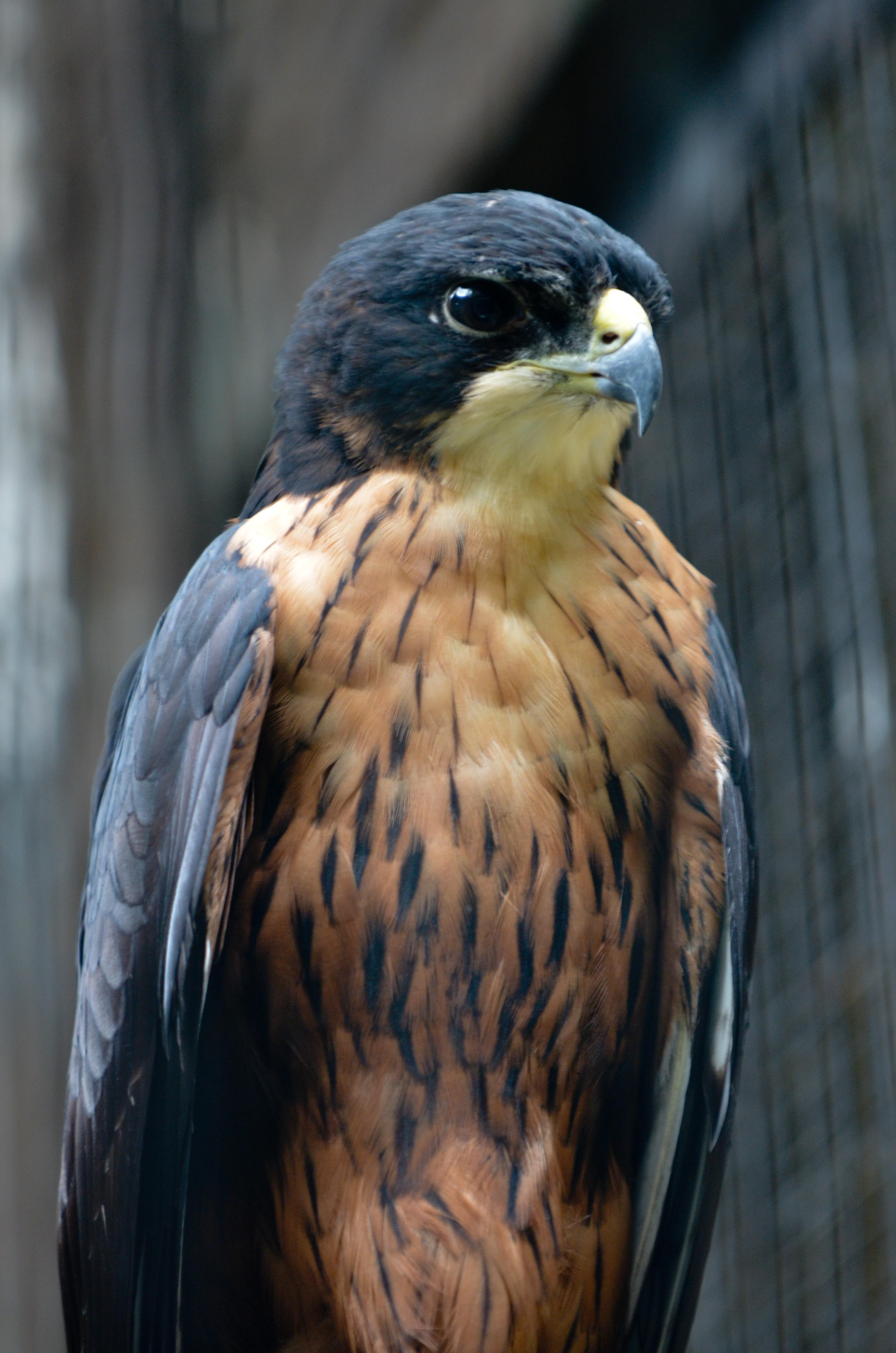 Rufous-bellied Hawk-eagle (not immature nominate Oriental Hobby) in a zoo.